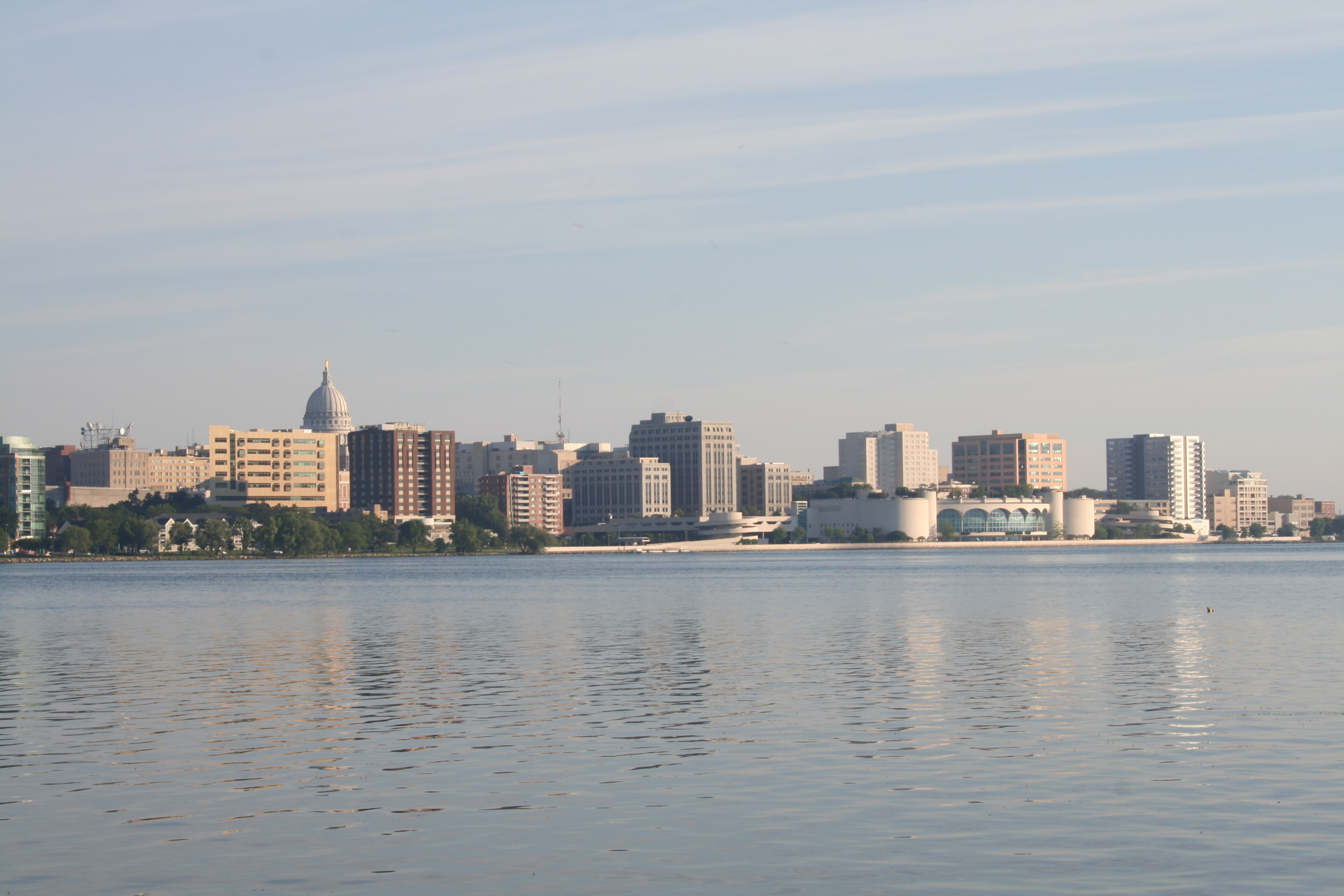 Madison, Wisconsin